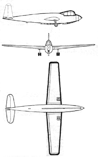 Three side view of the General Aircraft Hotspur glider.